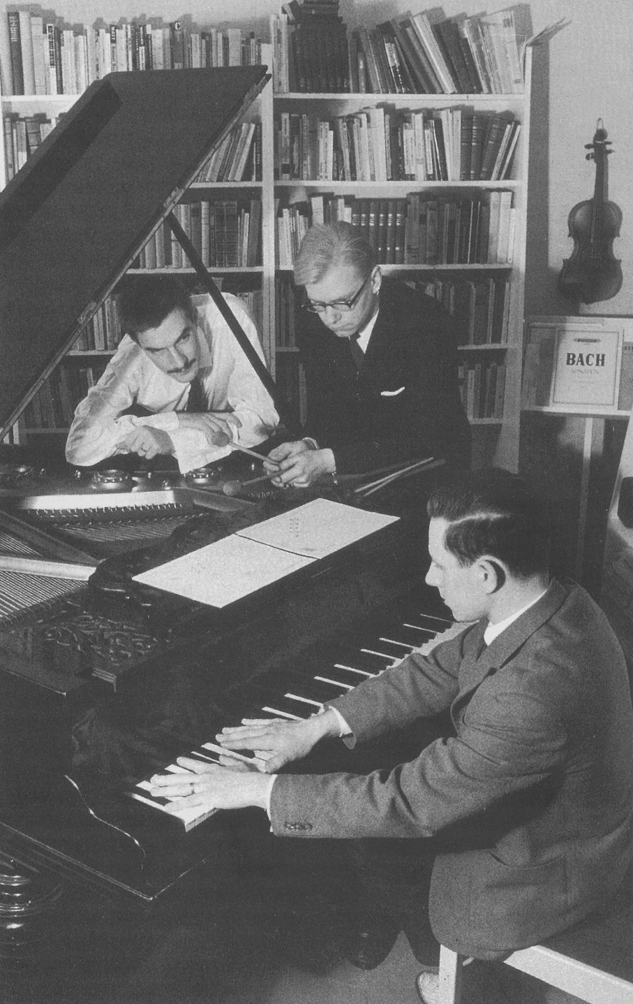 Photograph of the Finnish pianist and musicologist Ilpo Saunio (1939–1999), with Henrik Otto Donner (1939–2013) and Erkki Salmenhaara (1941–2002) listening.